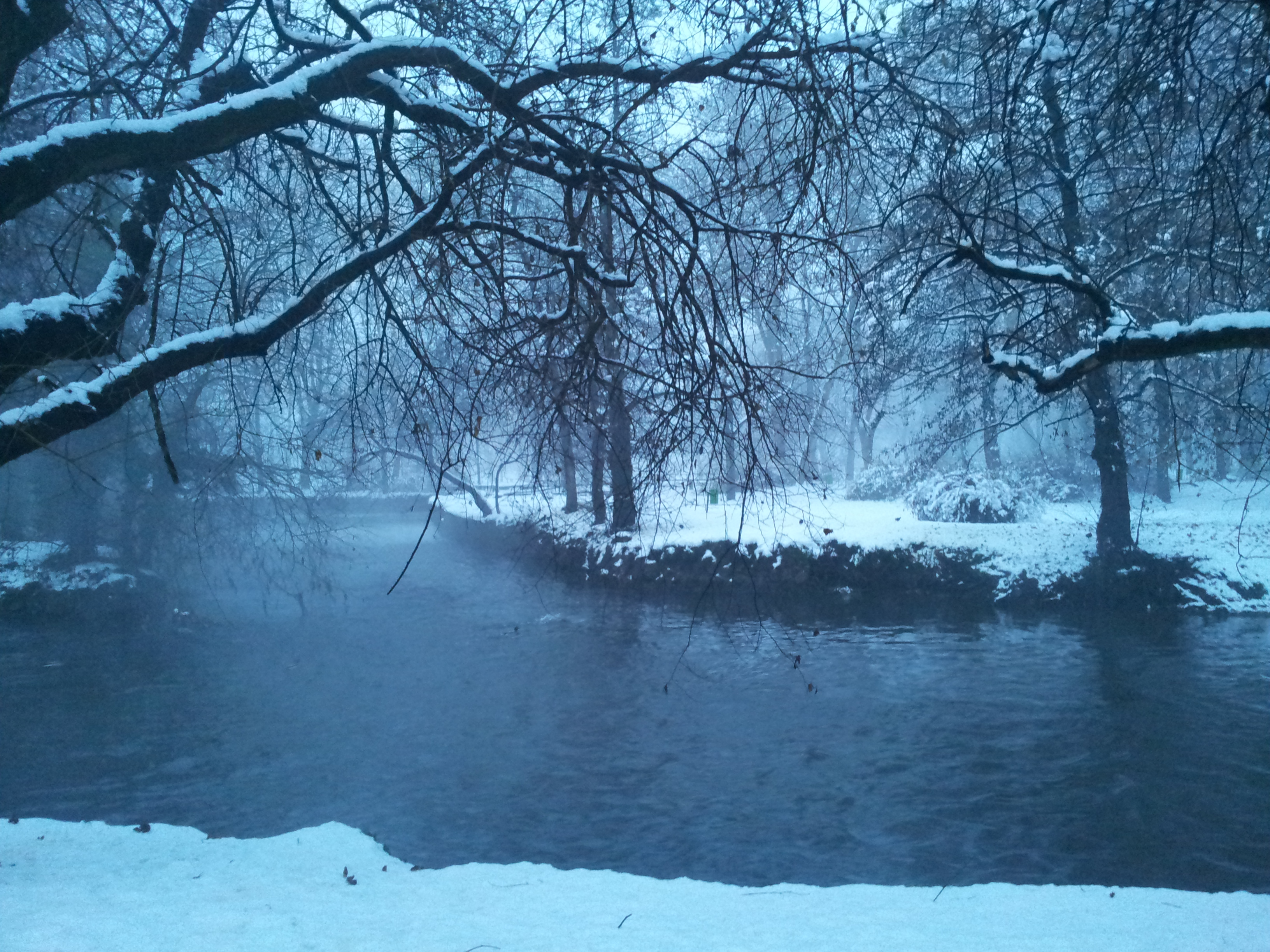 Lambro Park snowy on December 2012